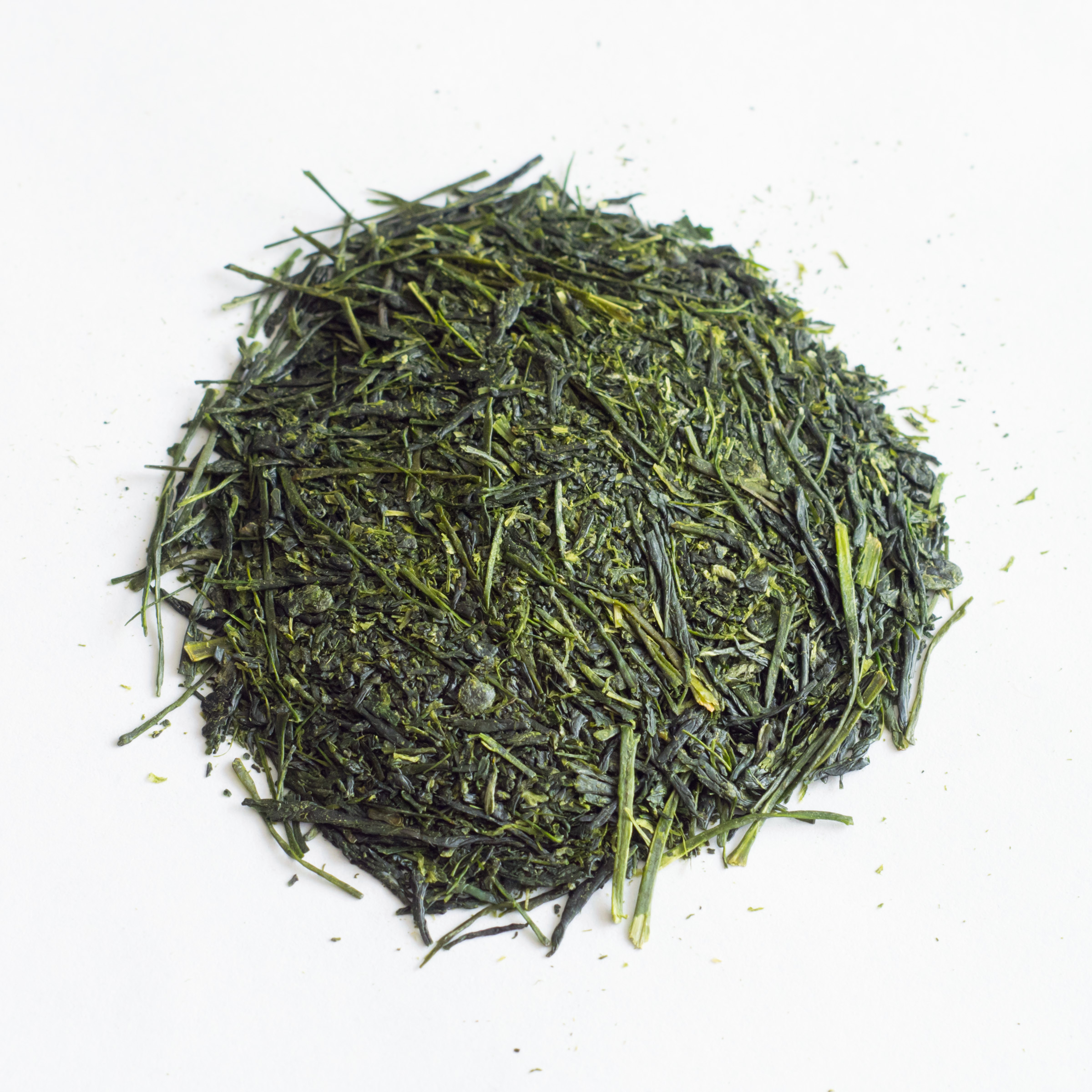 Deep steamed sencha from the first harvest of 2017. Grown in Kagoshima, this tea is made using the Sae Midori variety of the tea plant, which is a cross between Yabukita and Asatsuyu.